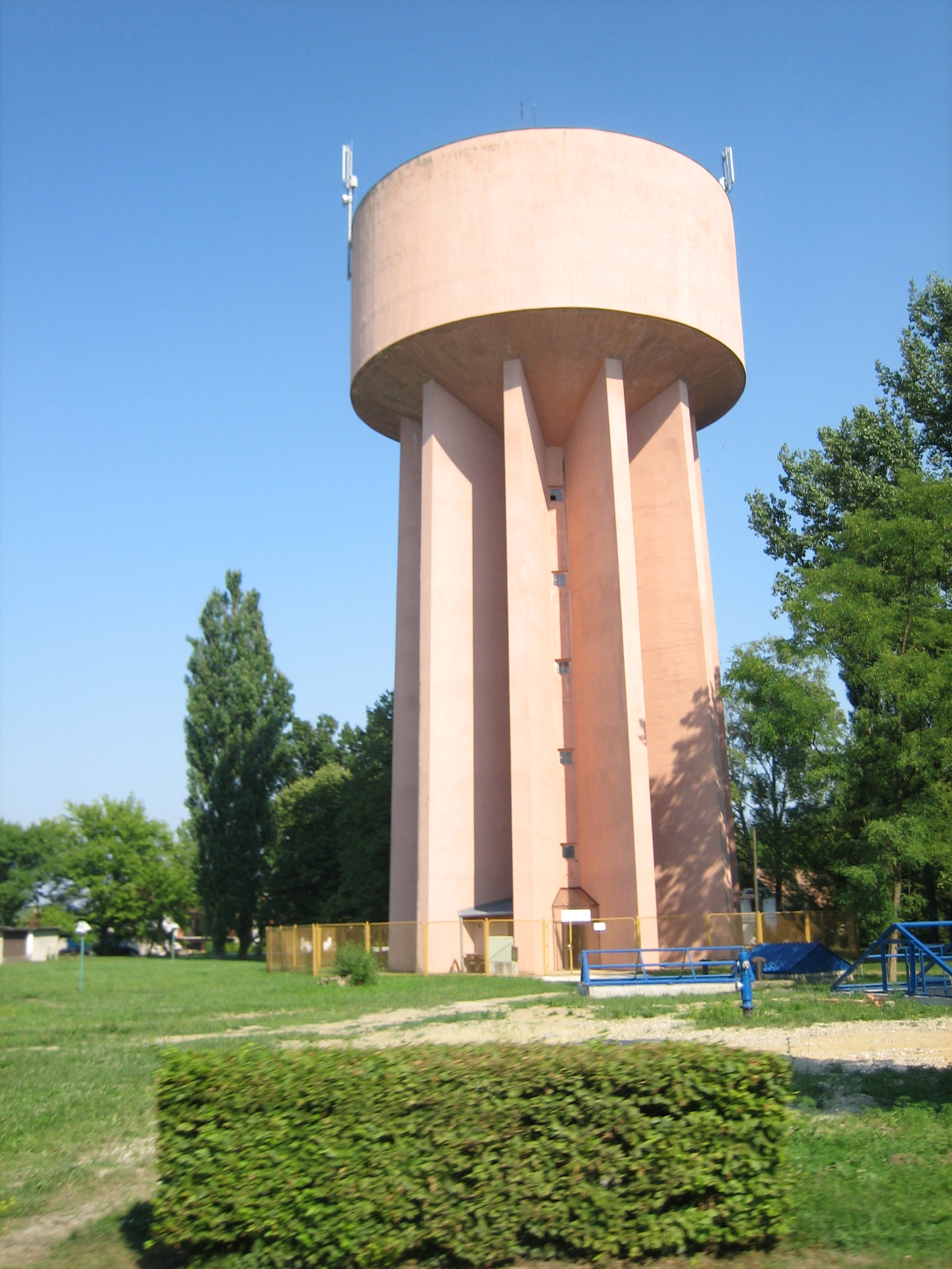 Water tower in Sisak, Croatia. 20th cent. / Sisački vodotoranj, 20. st.